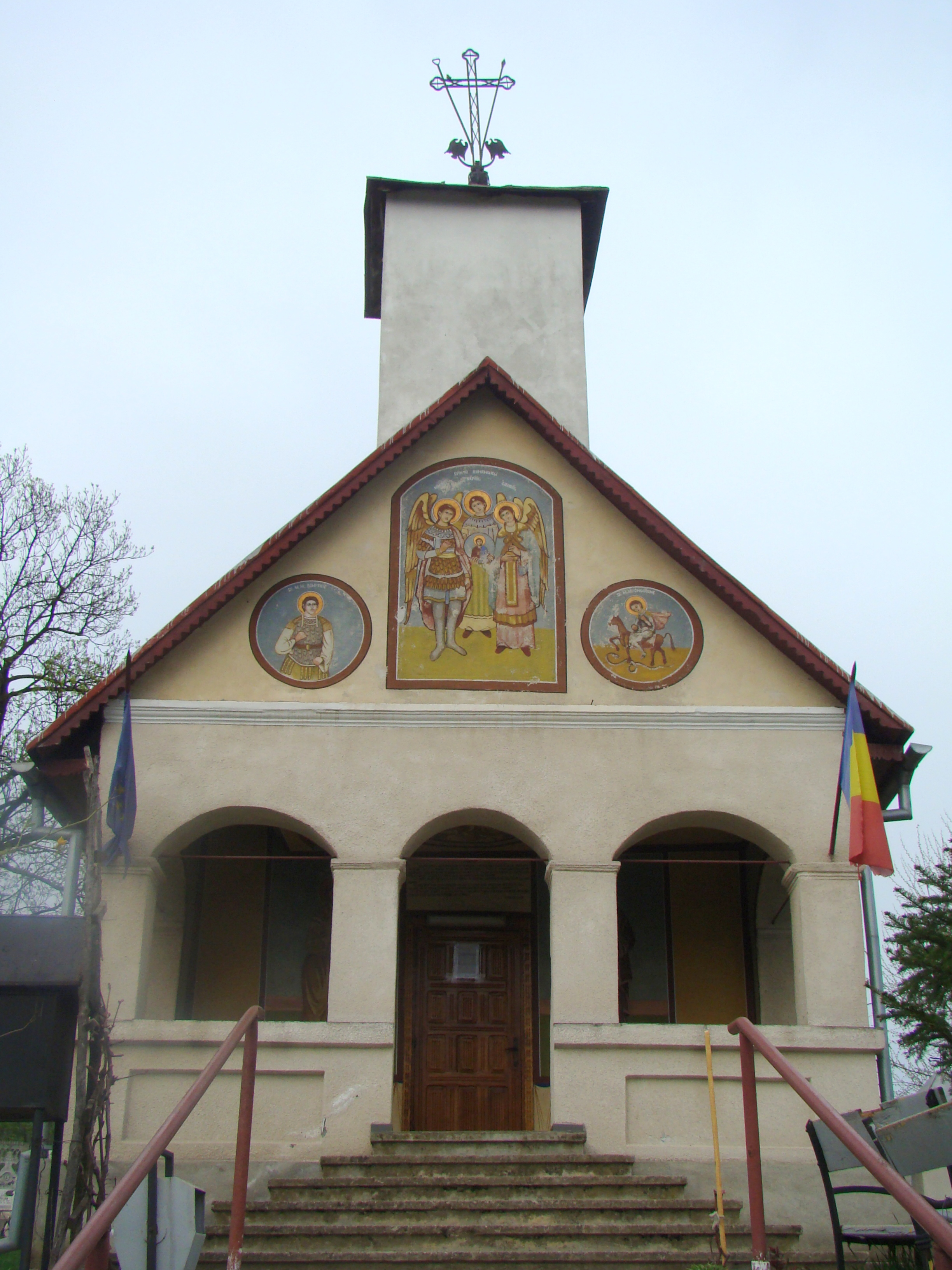 Wooden church in Motru (Leurda District), Gorj county, Romania